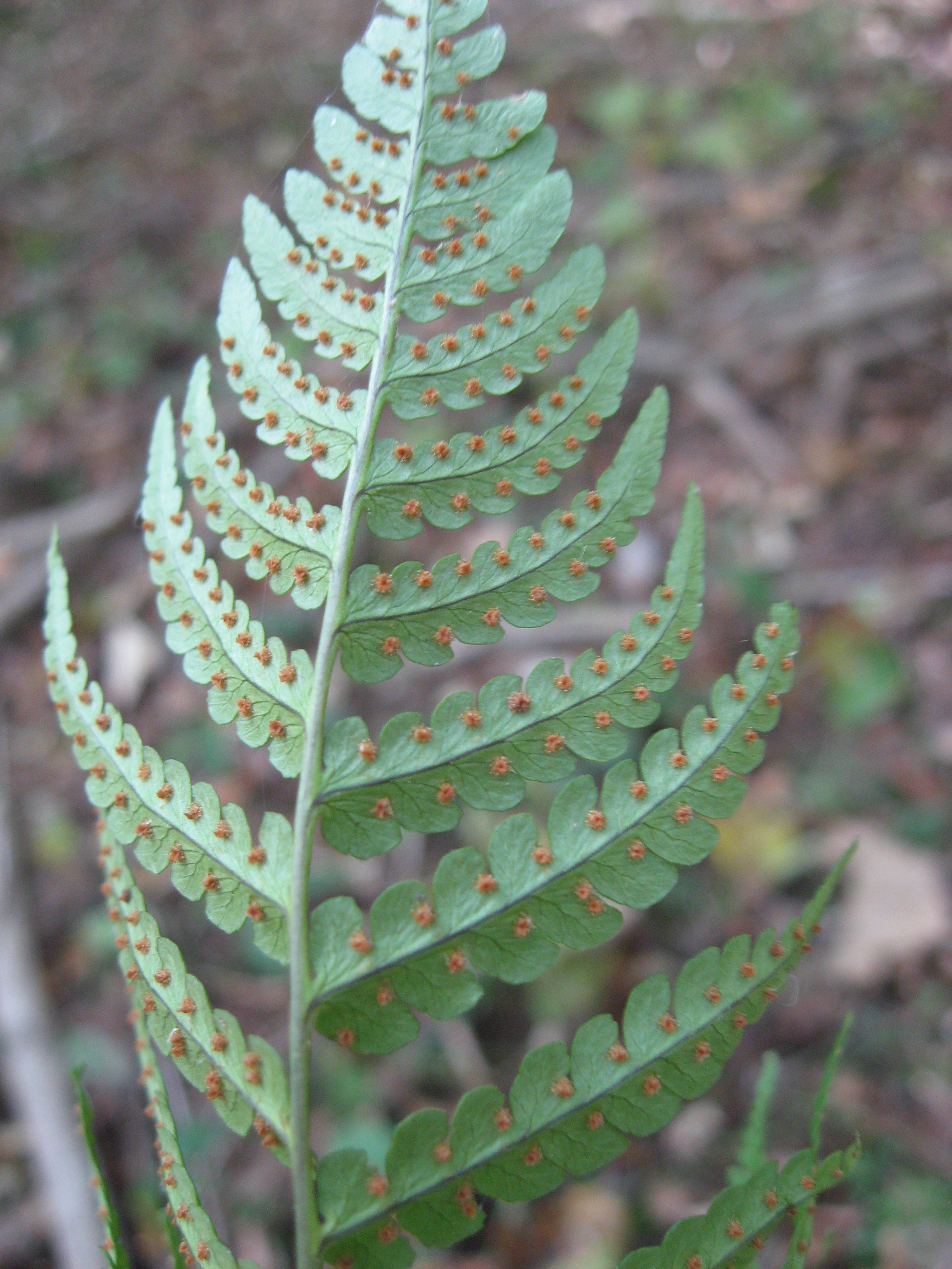 Dryopteris marginalis sori, Tom Dorman State Nature Preserve Garrard County, Kentucky.